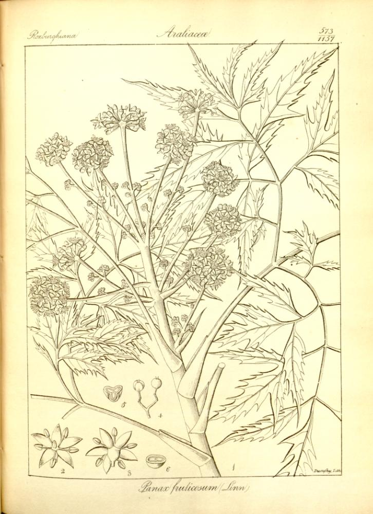 Plate 373 from Icones plantarum Indiae Orientalis :or figures of Indian plants